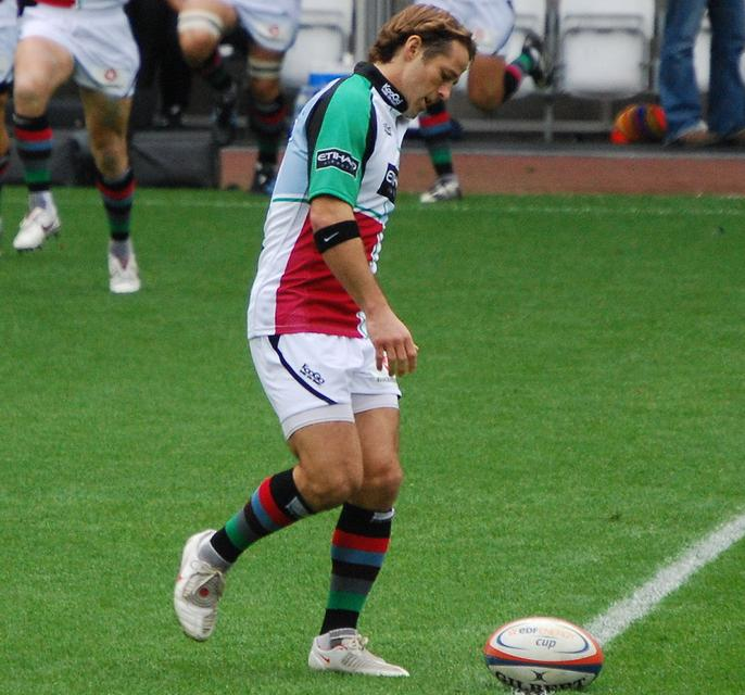 Andrew Gommarsall